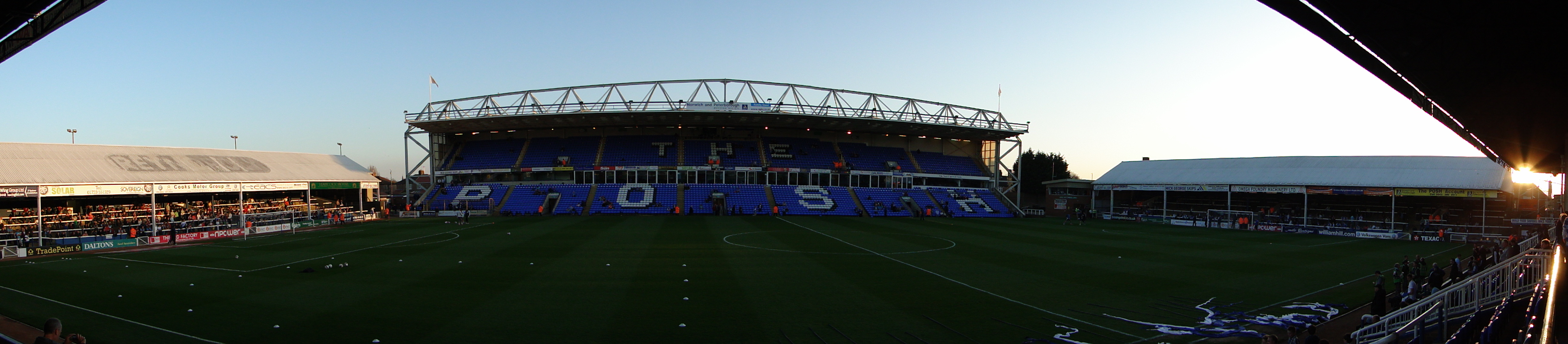 Peterborough United's London Road Stadium seen from the North Stand, March 2012